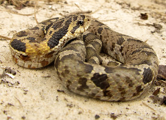 Eastern Hognose Snake Central Florida